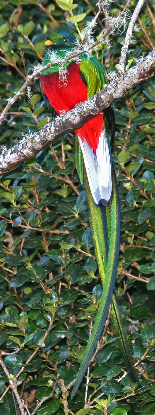 Resplendent Quetzal photo taken at Savegre Valley, Costa Rica.